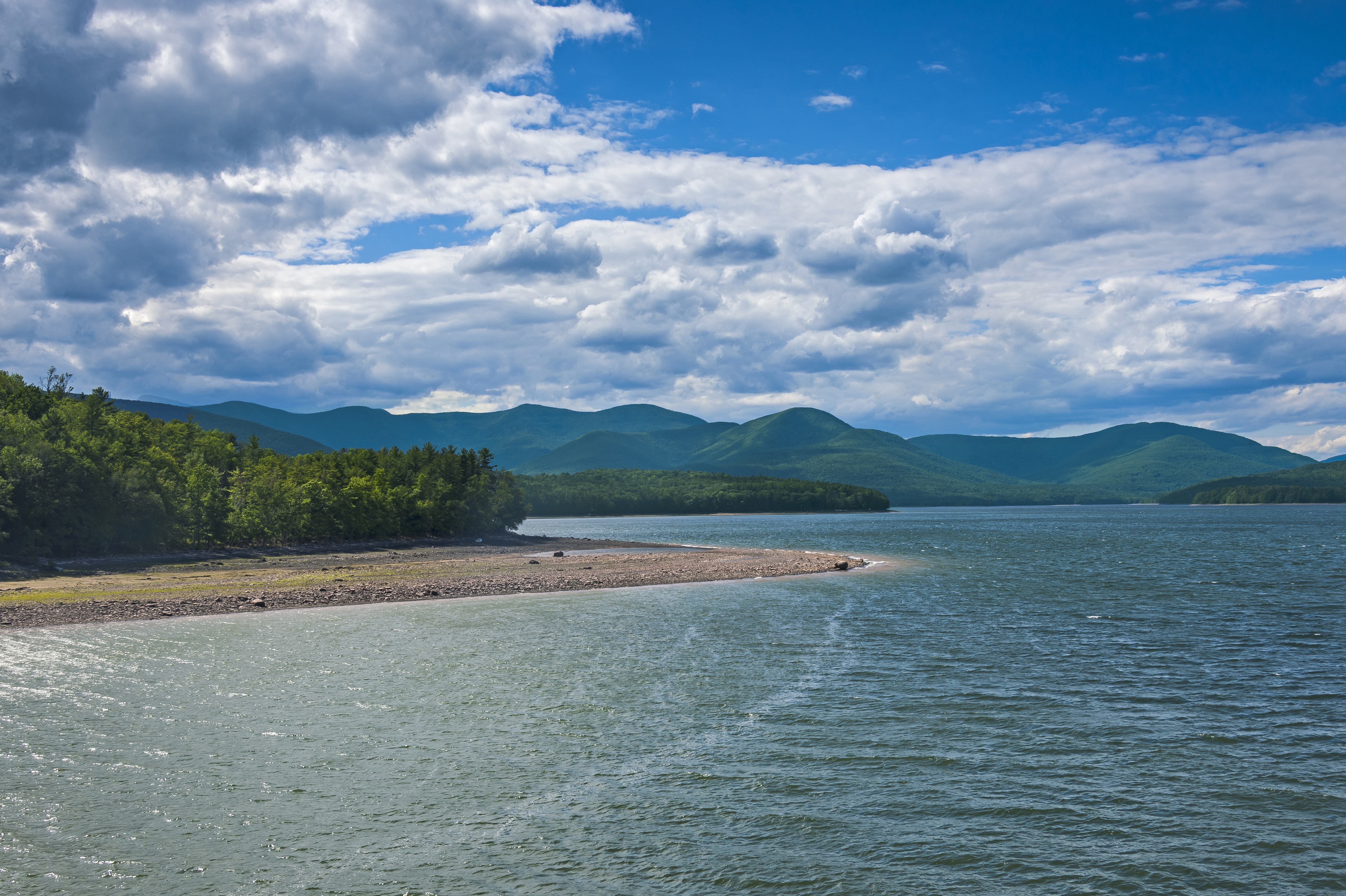 Ashokan Reservoir with the peaks of the Catskills' Burroughs Range in the distance.